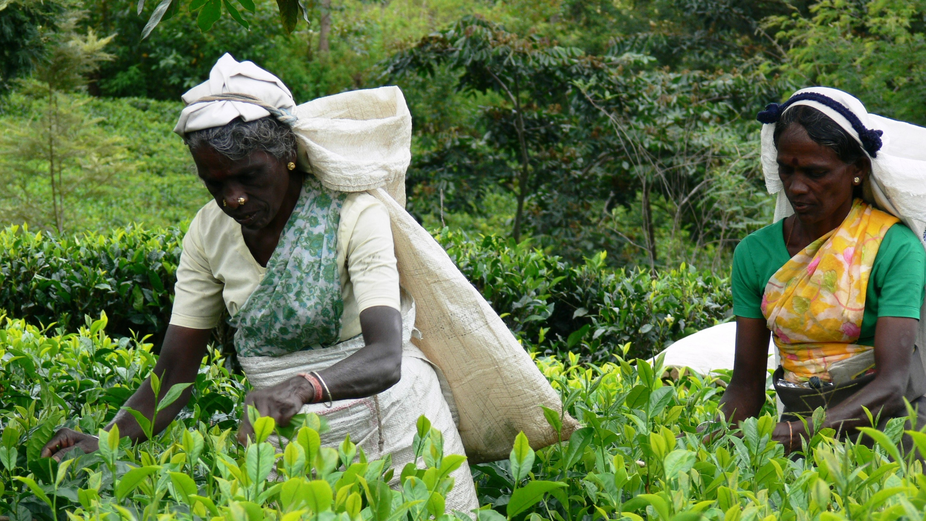 Pickers on an organic tea plantation in Sri Lanka.